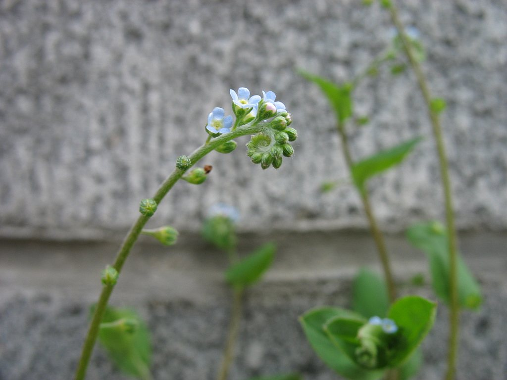 Photograph of Trigonotis peduncularis,taken in Machida city, Tokyo, Japan. Croped & resized.